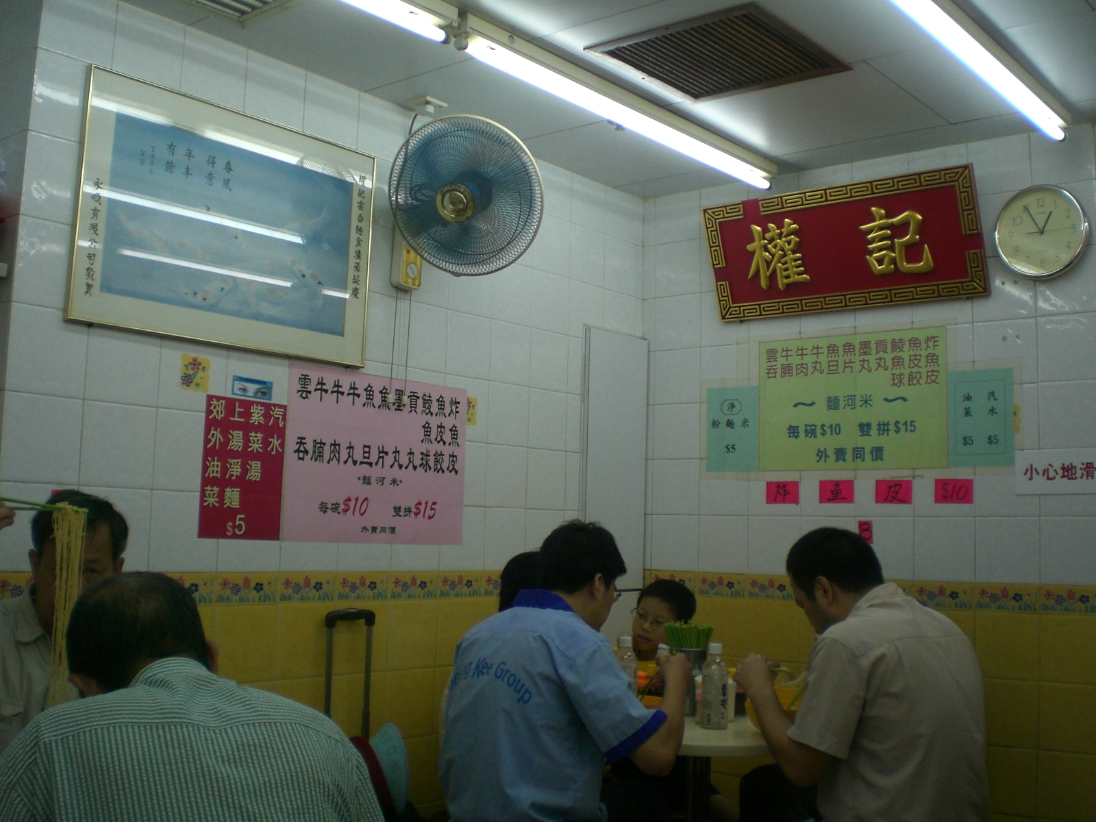 雲吞麵, Wonton noodle in a shop at Spring Garden Lane, Wan Chai, Hong Kong. Author= User:SHOLYWOD